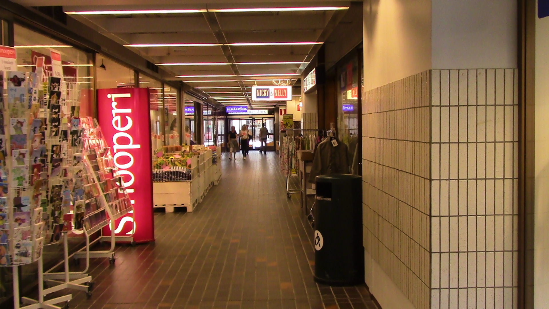 The shop aisle at Teljäntori shopping center in Pori.